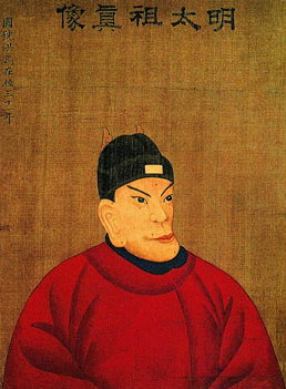 Hongwu emperor (reigned 1368-1398 AD) of the Ming Dynasty